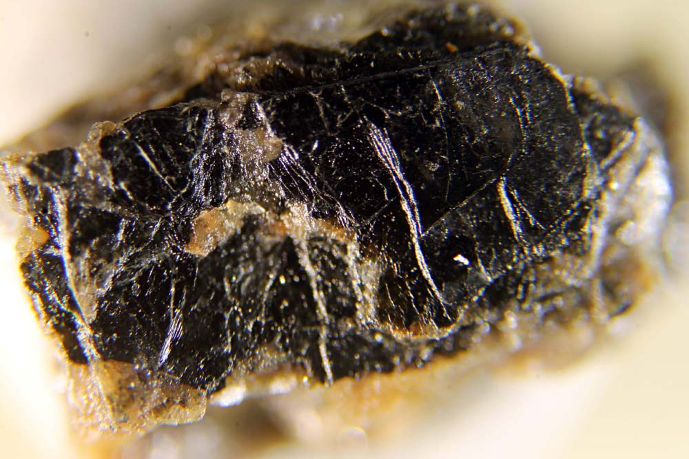 Black crystal aggregate of the very rare disprosium-erbium mineral yftisite-(Y) from the famous locality of Ytterby (Ytterby, Resarö, Vaxholm, Uppland, Sweden) known for the discovery of four rare earth chemical elements(Y, Er, Tb, Yb). Following Mindat, yftisite-(Y) is the only mineral species with erbium (Er) in its chemical composition. And, in addition, only 3 species from more than 5000 known minerals have Dy in its chemical composition. Yftisite-(Y) is a discredited mineral, but apparently valid since a crystal-structure determination was reported (Balko & Bakakin, 1975). Identical to the later described mieite-(Y).